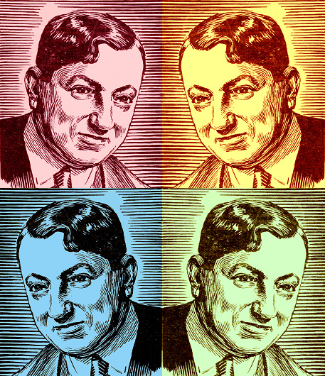 Picturing French author Francis Carco in Warhole's manner